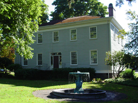 Exterior of the McLoughlin House in Oregon City, OR. Photo courtesy of National Park Service